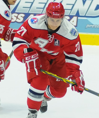 Aaron Ness at the 2015 AHL All-Star Game.